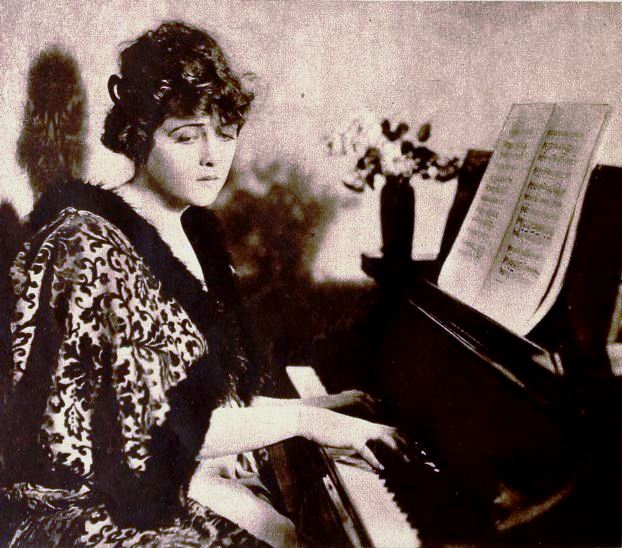 Actress Katherine MacDonald on page 30 of the October 1919 Shadowland.